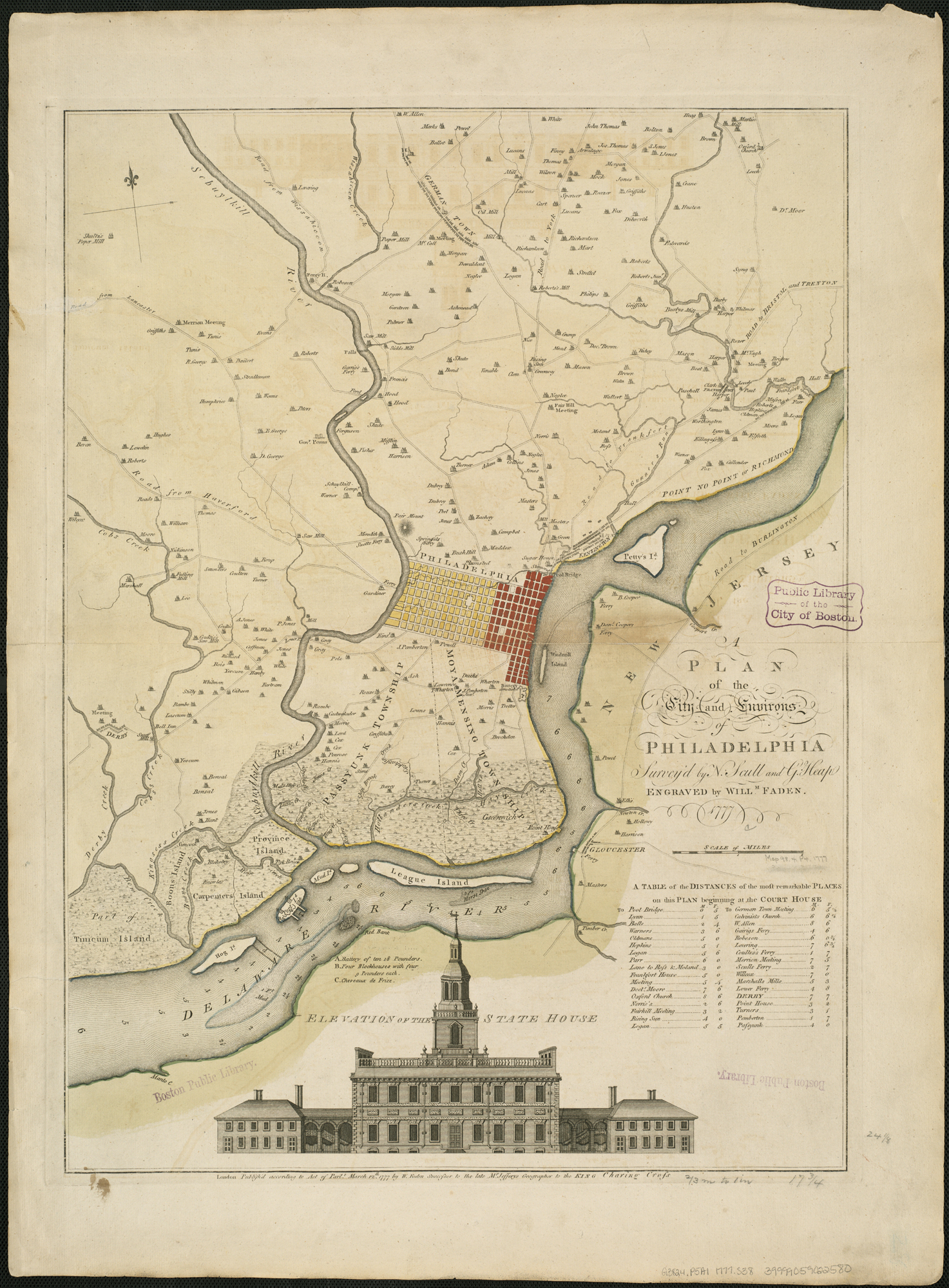 Zoom into this map at . Author: Scull, Nicholas Publisher: Faden, William Date: 1777 Location: Pennsylvania, Philadelphia (Pa.) Dimension 62x45cm Scale: ca. 1:43,000 Call Number: G3824.P5A1 1777 .S38